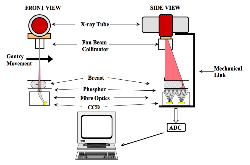 Illustration of scanning-slot digital mammography.